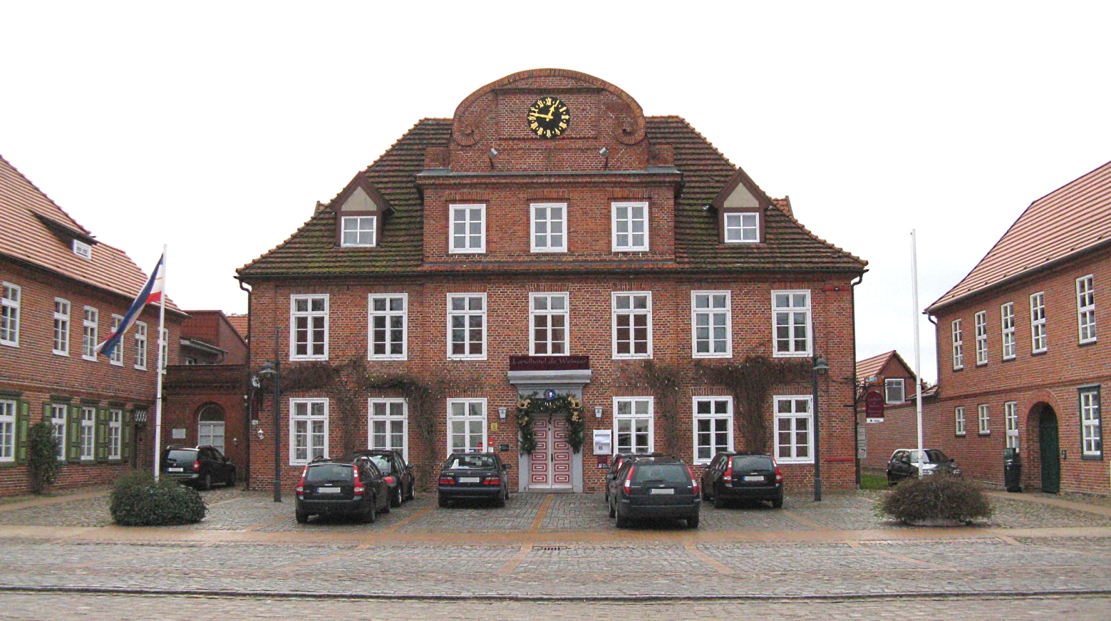 former guest house of Dukes in Ludwigslust, Germany